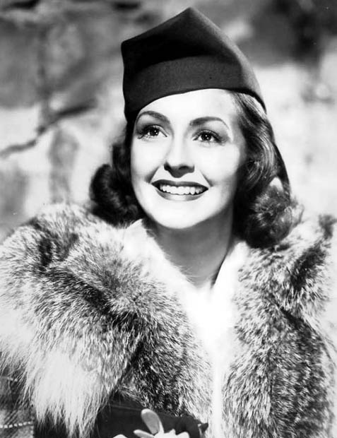 Promotional photograph of actor Nancy Kelly (1940s)